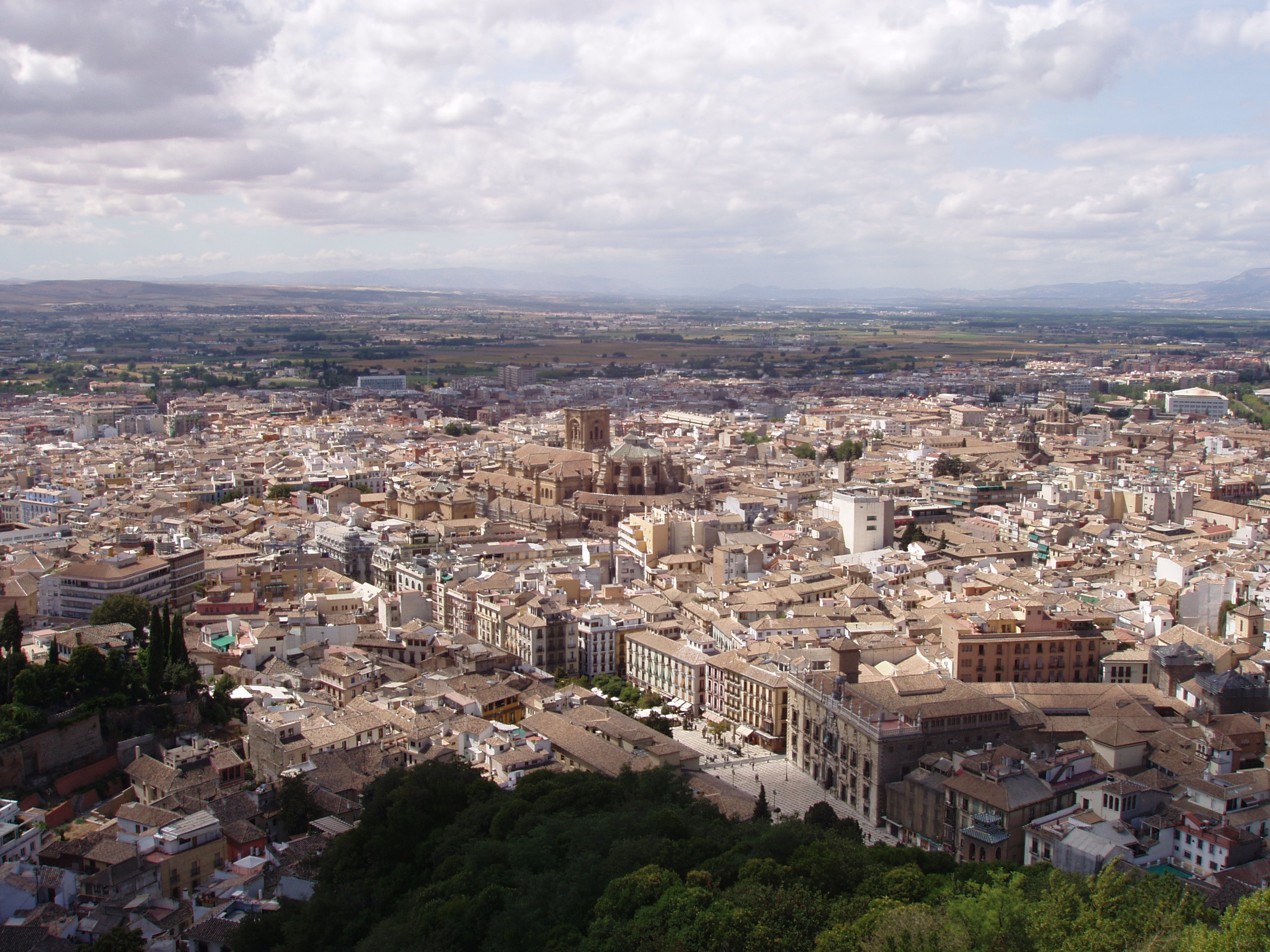 Cathedral in Granada from Alhambra